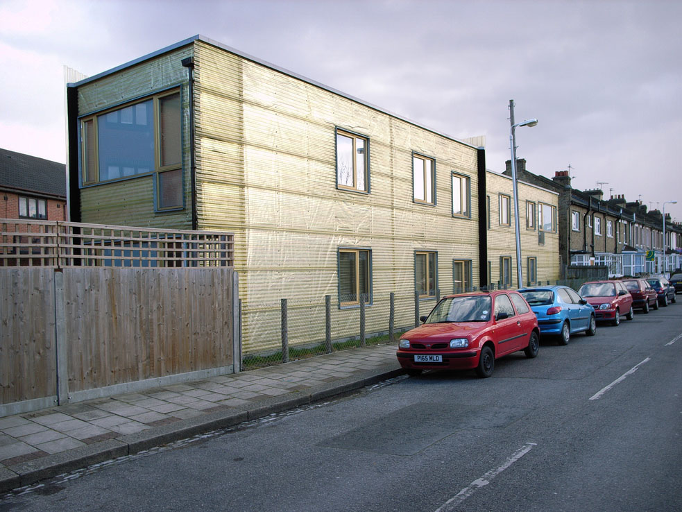 Housing for Peabdy Trust by Ash Sakula Architects, in Silvertown, London.